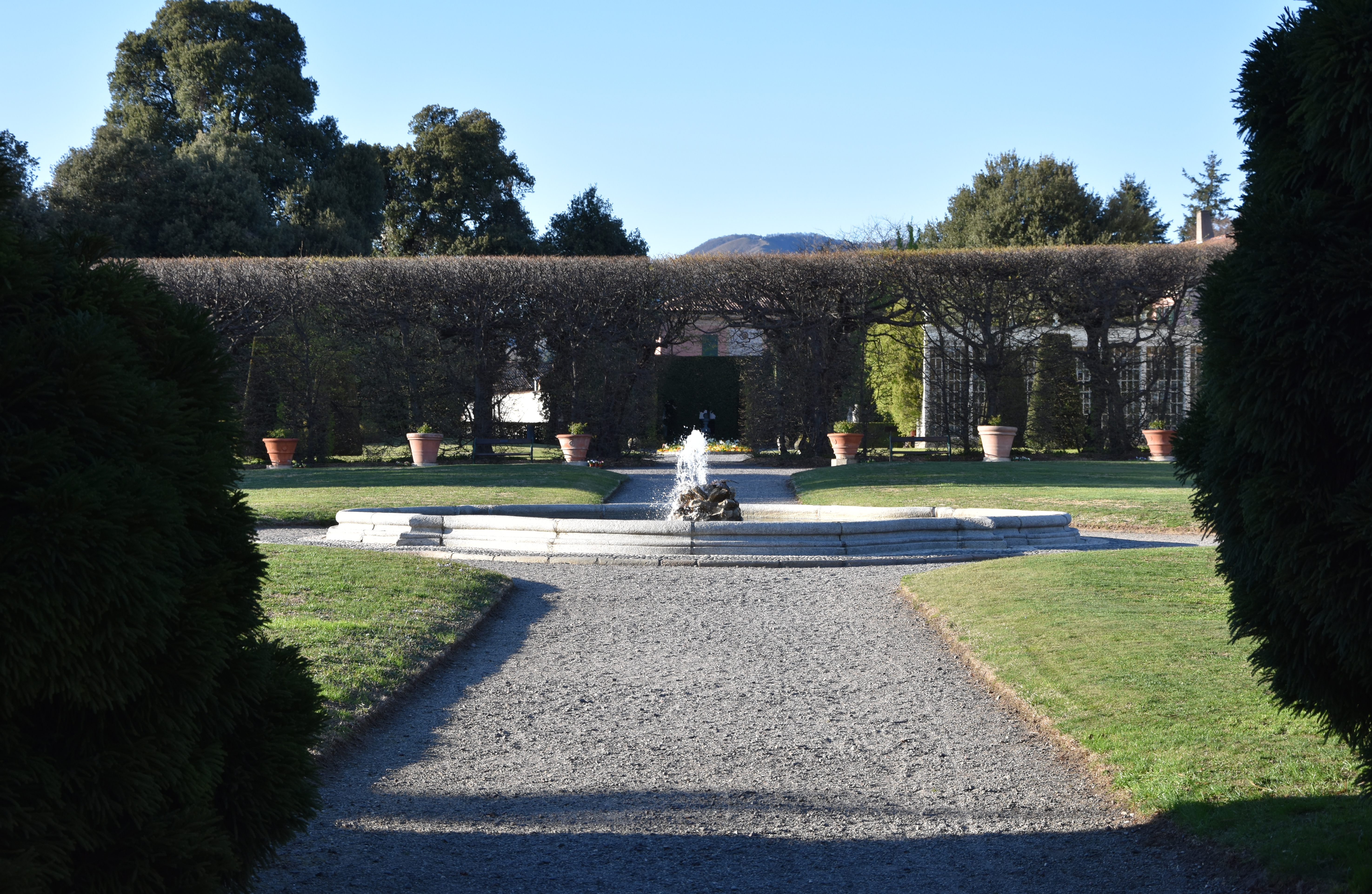 Villa Panza in Varese, Italy.